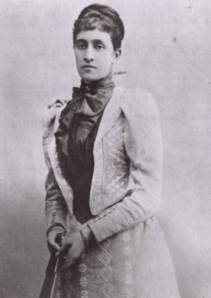 picture of Maria Anna of Portugal, Grand Duchess of Luxembourg.She was wife of William IV, Grand Duke of Luxembourg.